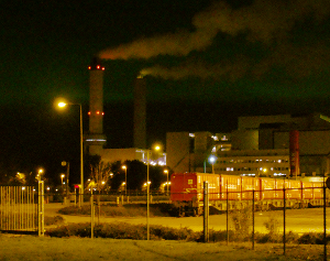 The incineration facility in Amsterdam, the Netherlands, by night. The front chimney belongs to a new part of the building, designed by Visser en Withag architecten. The facility also has the capability to generate electrical power. Not sure if the appeal to FOP is actually necessary, but just to be on the safe side. No better resolution provided because the original has rather poor quality.